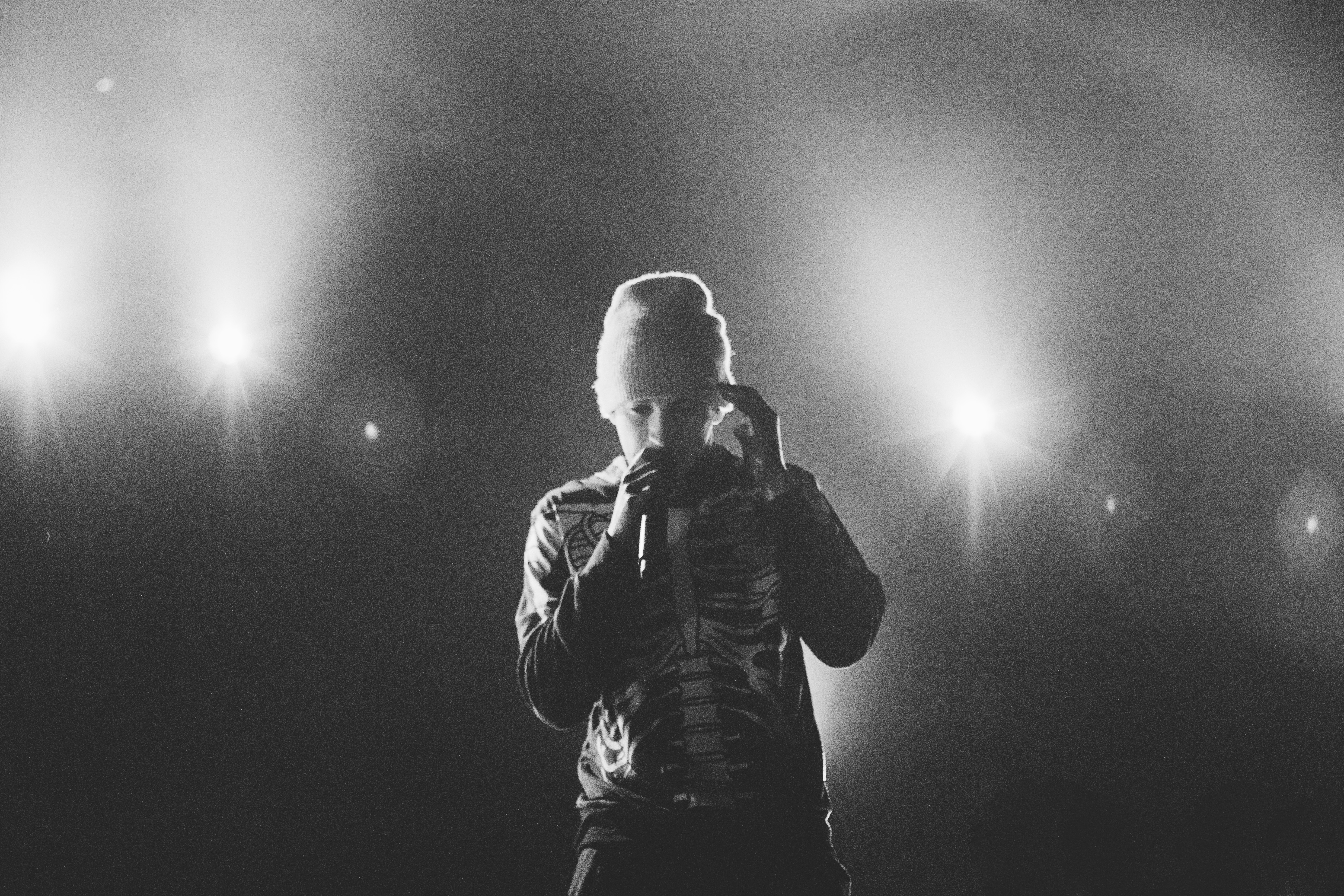 Tyler Joseph of Twenty One Pilots performing at City Park on October 31, 2014 in New Orleans, Louisiana on the Quiet Is Violent Tour.